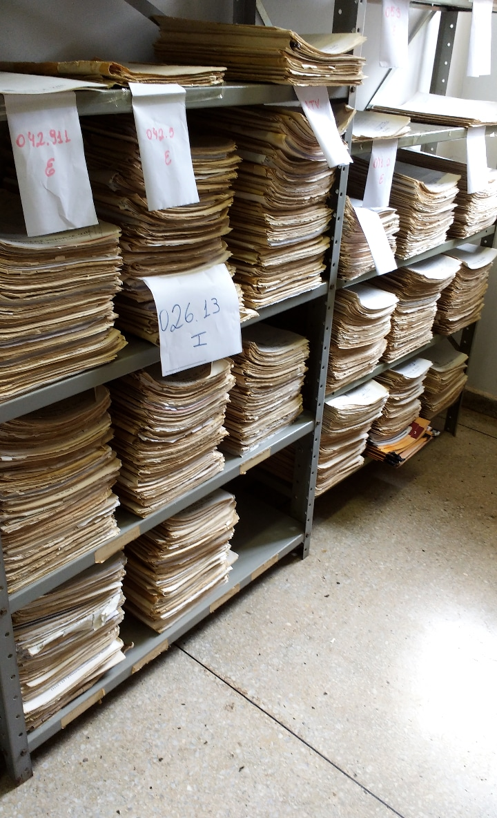 Documentation Center